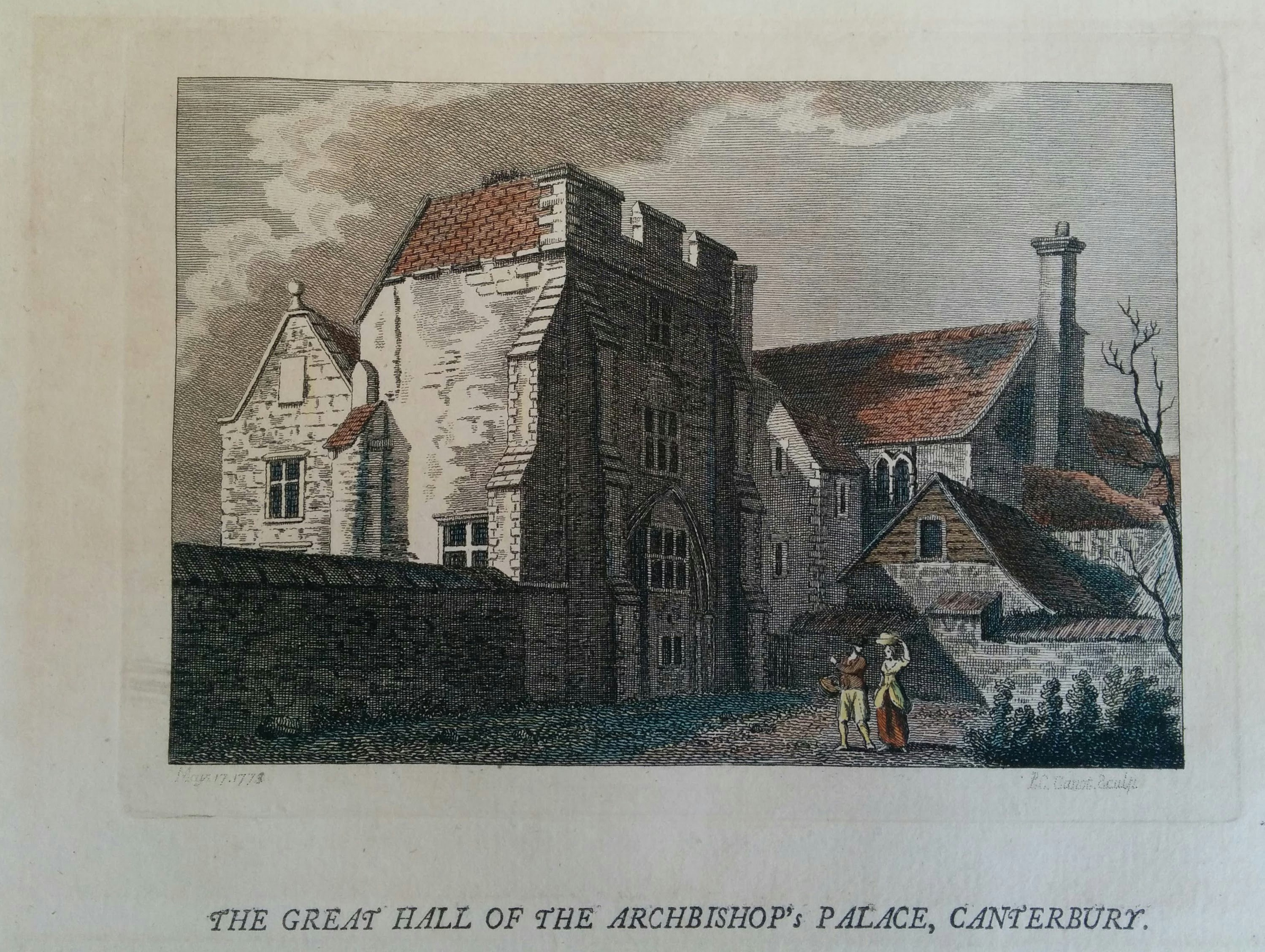 P.C. Canot Scupt Text printed on verso reads: THE GREAT HALL OF THE ARCHBISHOP's PALACE CANTERBURY Anno 1559, Archbishop Parker, at his consecration, found his Palace here in a very ruinous state, the great Hall in particular, partly occasioned by fire, and partly for want of the necessary repairs; he therefore, in the years 1560 and 1561, thoroughly restored the whole, expanding thereon 1406l. 15s. 4d. In the year 1573, he here entertained Queen Elizabeth and her whole Court. This Hall was a right-angled parallelogram, its north and south sides measuring eighty-three, its east and west sixty-eight feet. It is now a garden, the roof, and even some of the bounding walls, being demolished: that on the east side is still standing, wherein are two Gothic canopies of Sussex marble, supported by pillars of the same, probably designed for beaufets or side-boards, the tops of which growing ruinous, have been in part taken down. Along this side runs a terrace, raised on fragments of marble pillars, piled one upon the other, like billets on a wood-stack; the ends of them appeared till within a few years, when a tenant, disliking their appearance, laid a slope of green turf against them. The height of this terrace is about three feet, its breadth nearly nine: there pillars probably were ornaments to the Hall and Palace, pulled down and demolished amongst the other depredations committed by the Puritans at this place. The north wall, now standing, is modern seemingly constructed out of the materials of the Hall, in order to enlarge the garden; the traces of he original north wall are still visible. The porch is only a square of seventeen feet. This view was drawn Anno 1769.